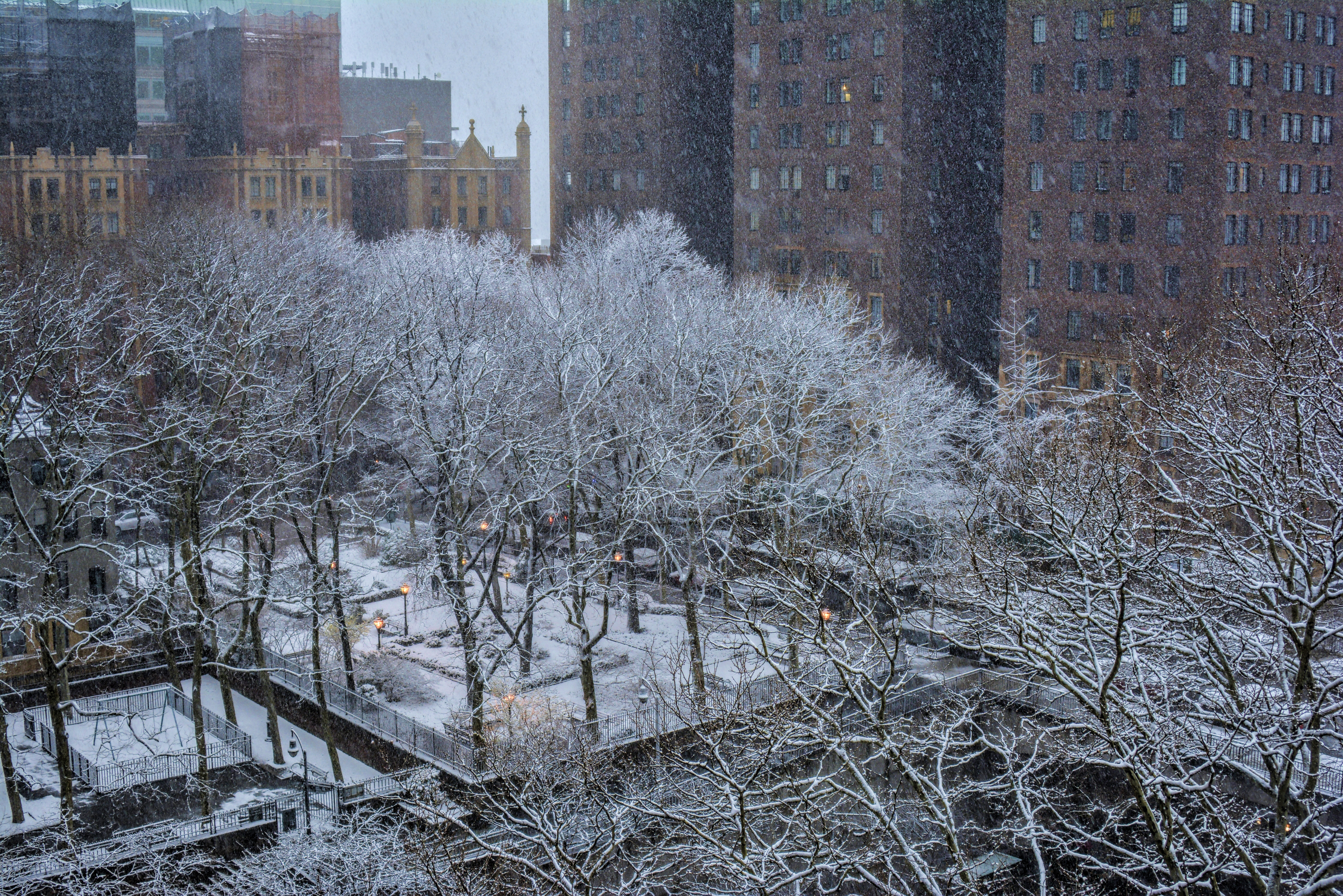 Beautiful fluffy snowstorm in Tudor City.